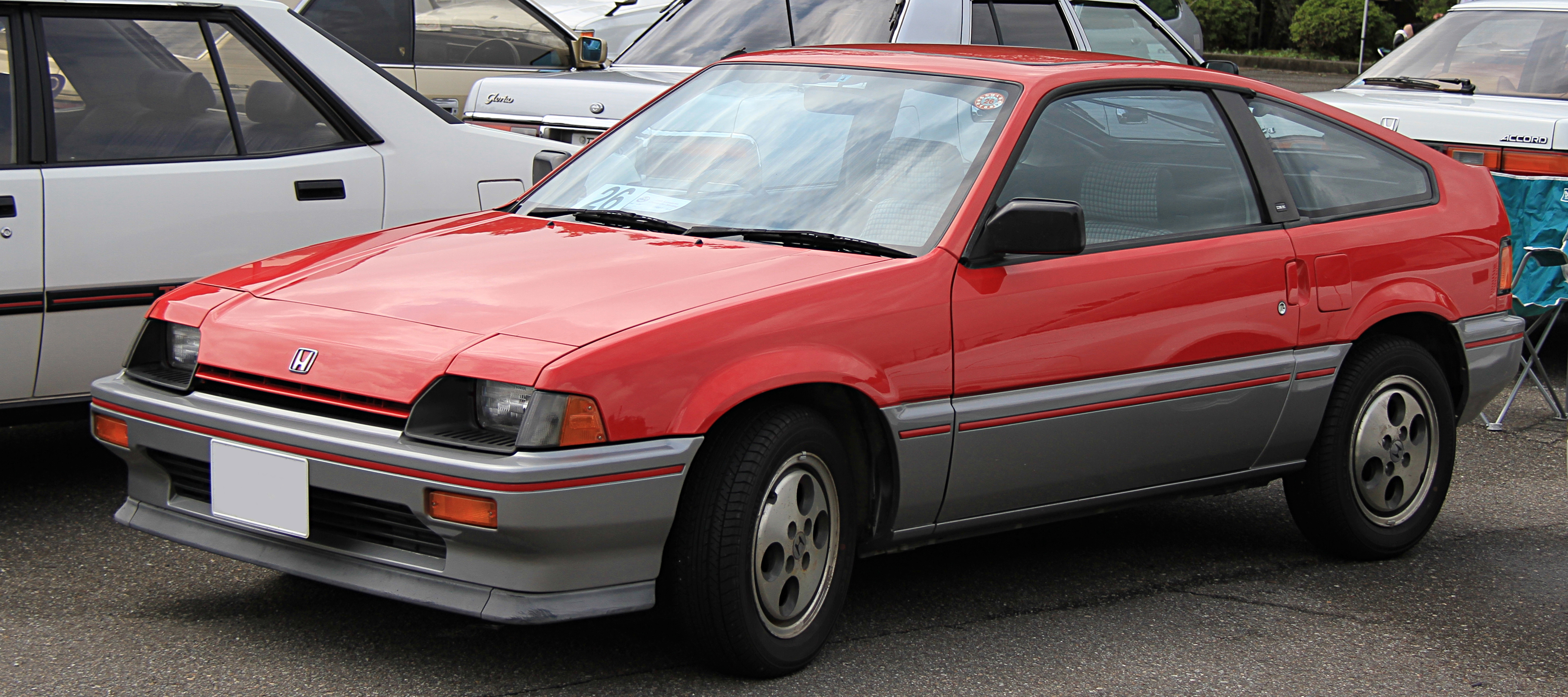 Honda CR-X